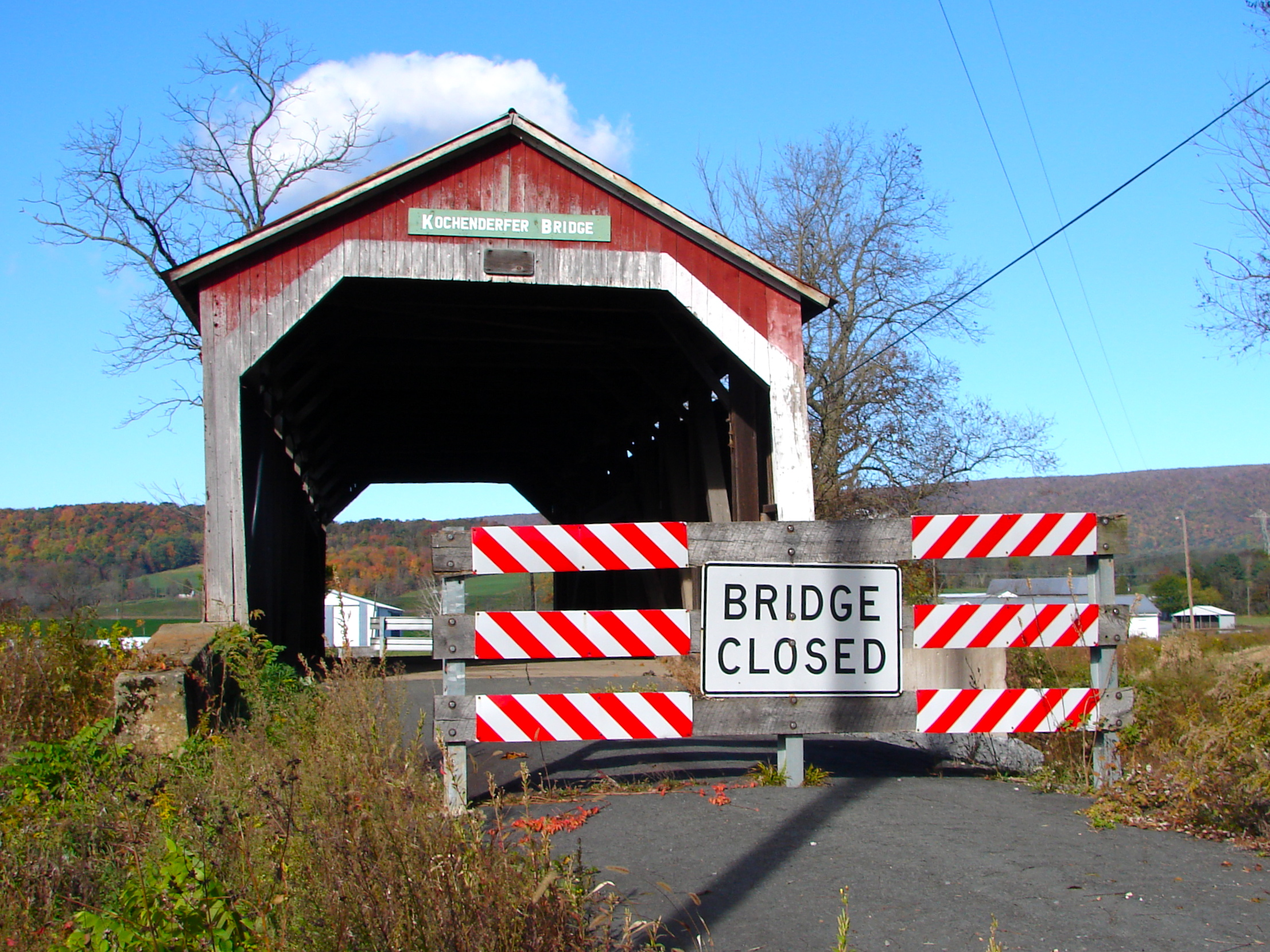 Kochendefer Covered Bridge on the NRHP since August 25, 1980. Southeast of Saville on Township 332, Saville Township, Perry County, Pennsylvania. Covered bridge number 38-50-09, built 1919, Modified King-Queen Post construction.